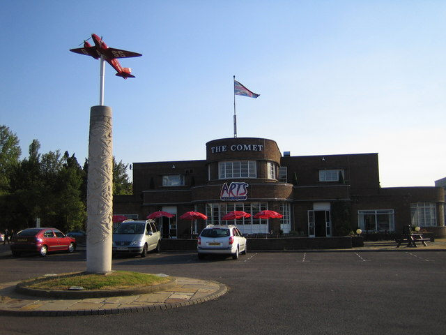 Hatfield: The Comet hotel. Grade II listed 1930s Art Deco building now operated by Ramada Jarvis: The carving of the pillar is by Eric Kennington; the aircraft is not the original.